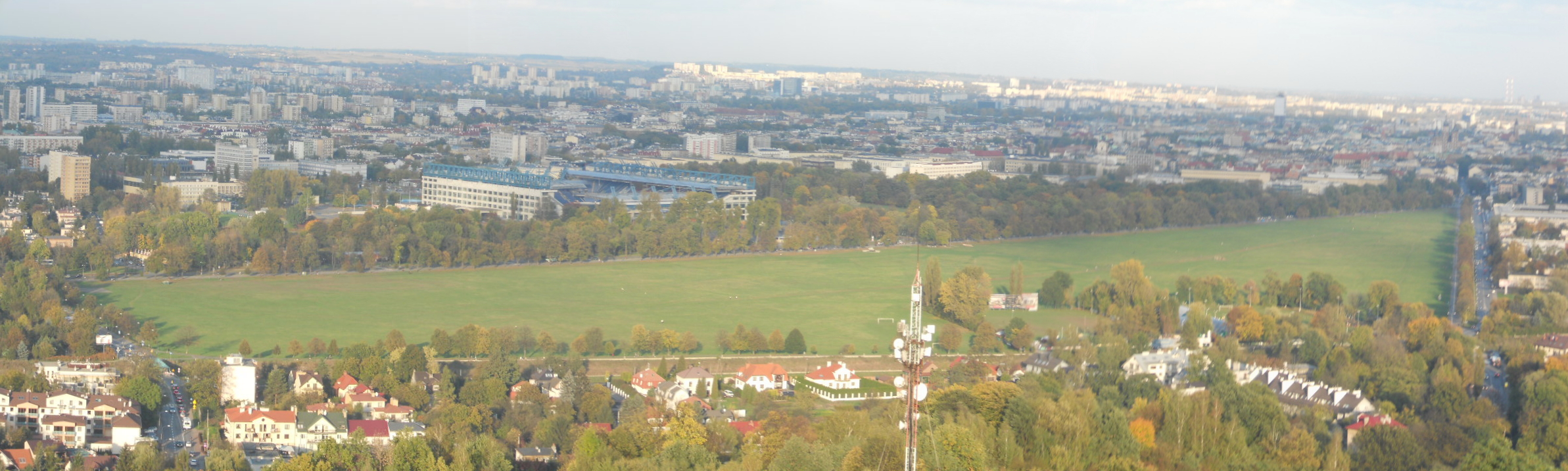 Cracow Meadows, view from Kościuszko Mound, Cracow.